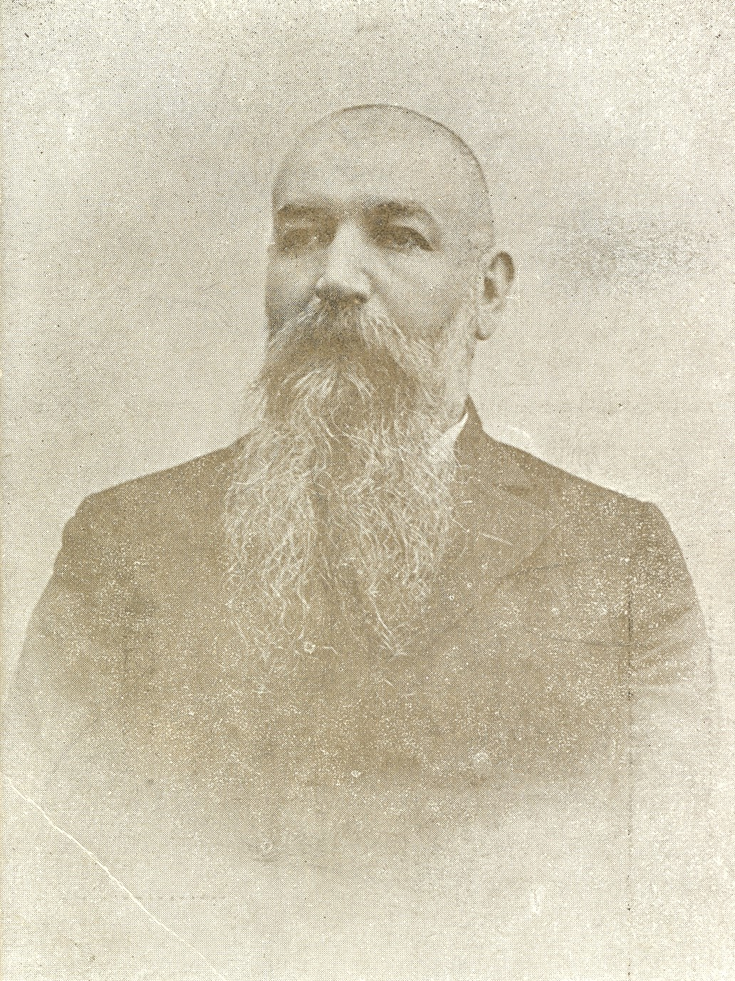 Photograph of Đorđe Krasojević (1852-1923), Serbian politician and lawyer (ca. 1920). Srpski (latinica): Fotografija Đorđa Krasojevića (1852-1923), političara i advokata (oko 1920).